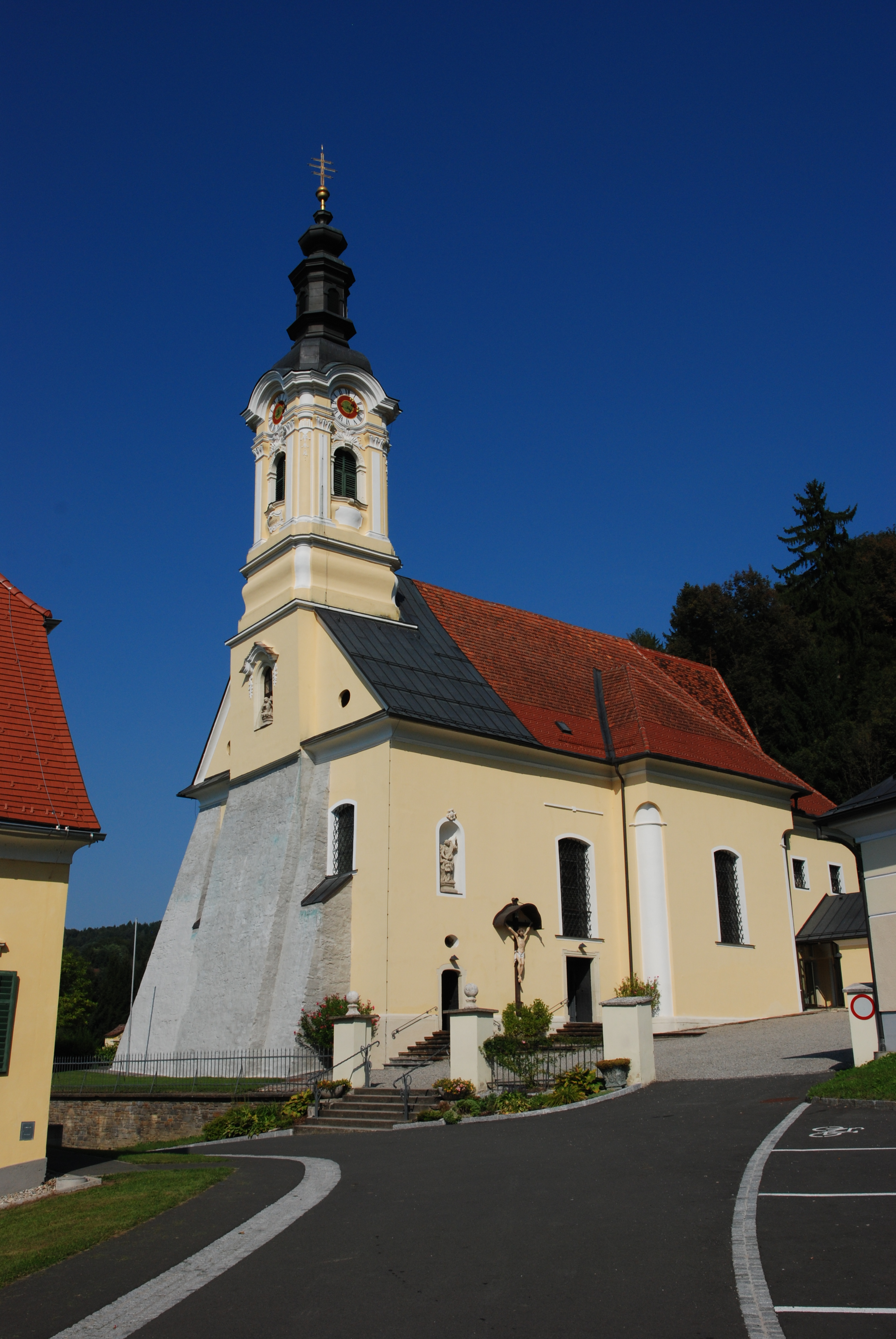 Kirche Wolfsberg im Schwarzautal